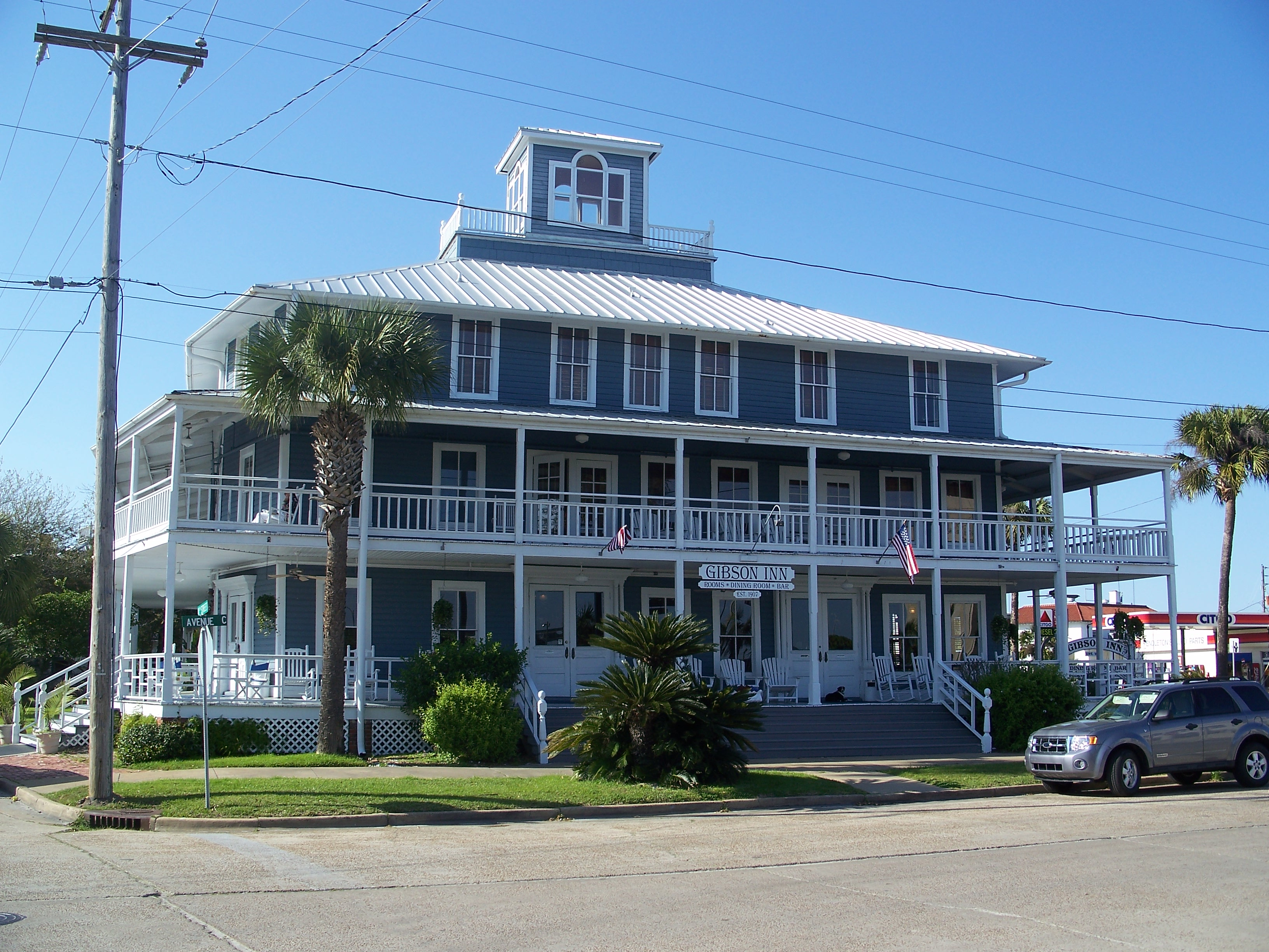 Apalachicola, Florida: Apalachicola Historic District: The Gibson Inn.